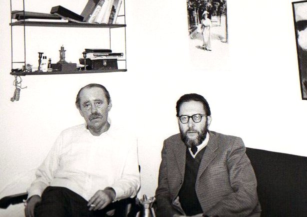 Heinrich Böll and Italo Alighiero Chiusano in 1972.